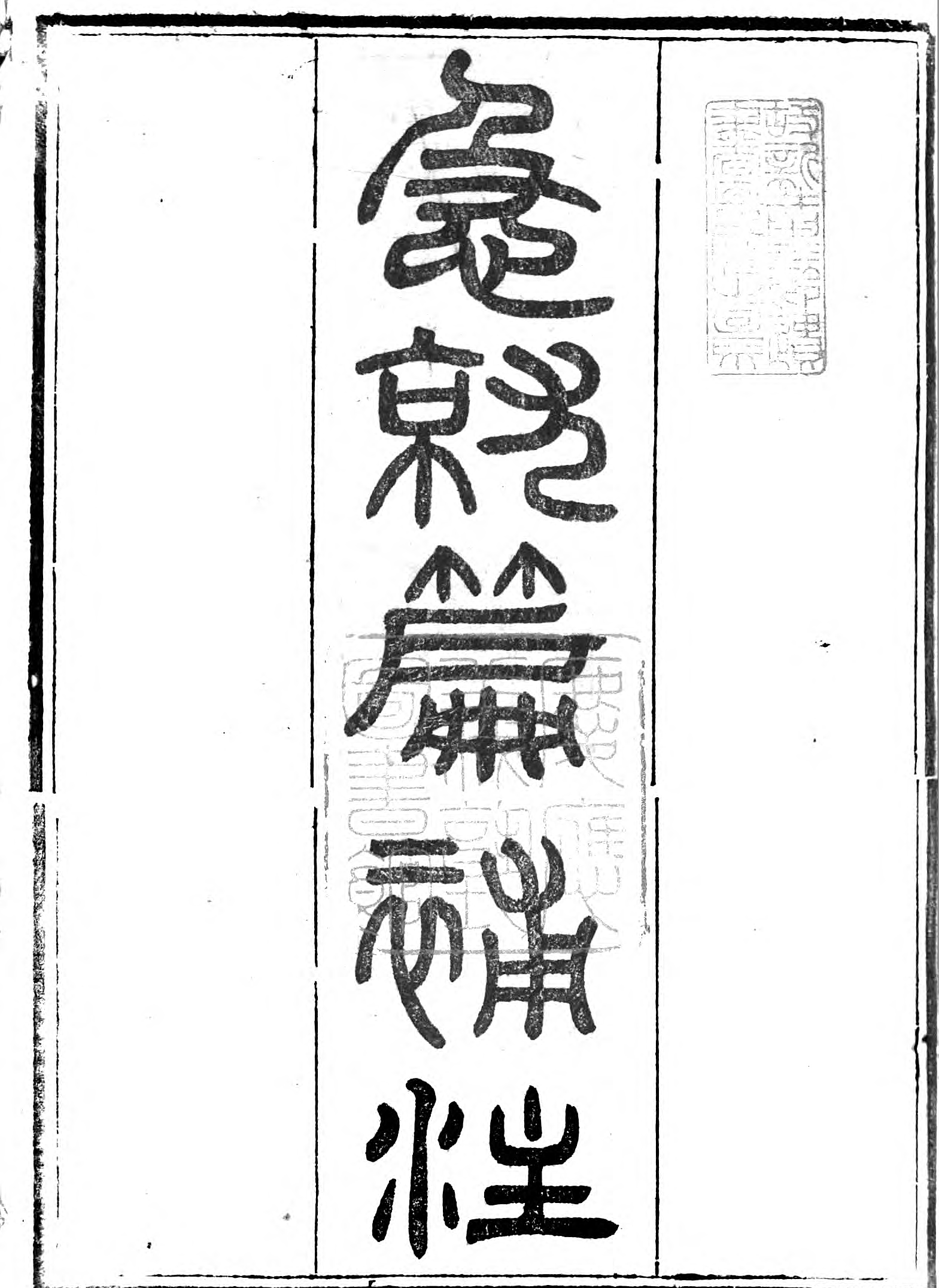 Title page of Jijiupianfuzhu 急就篇補注